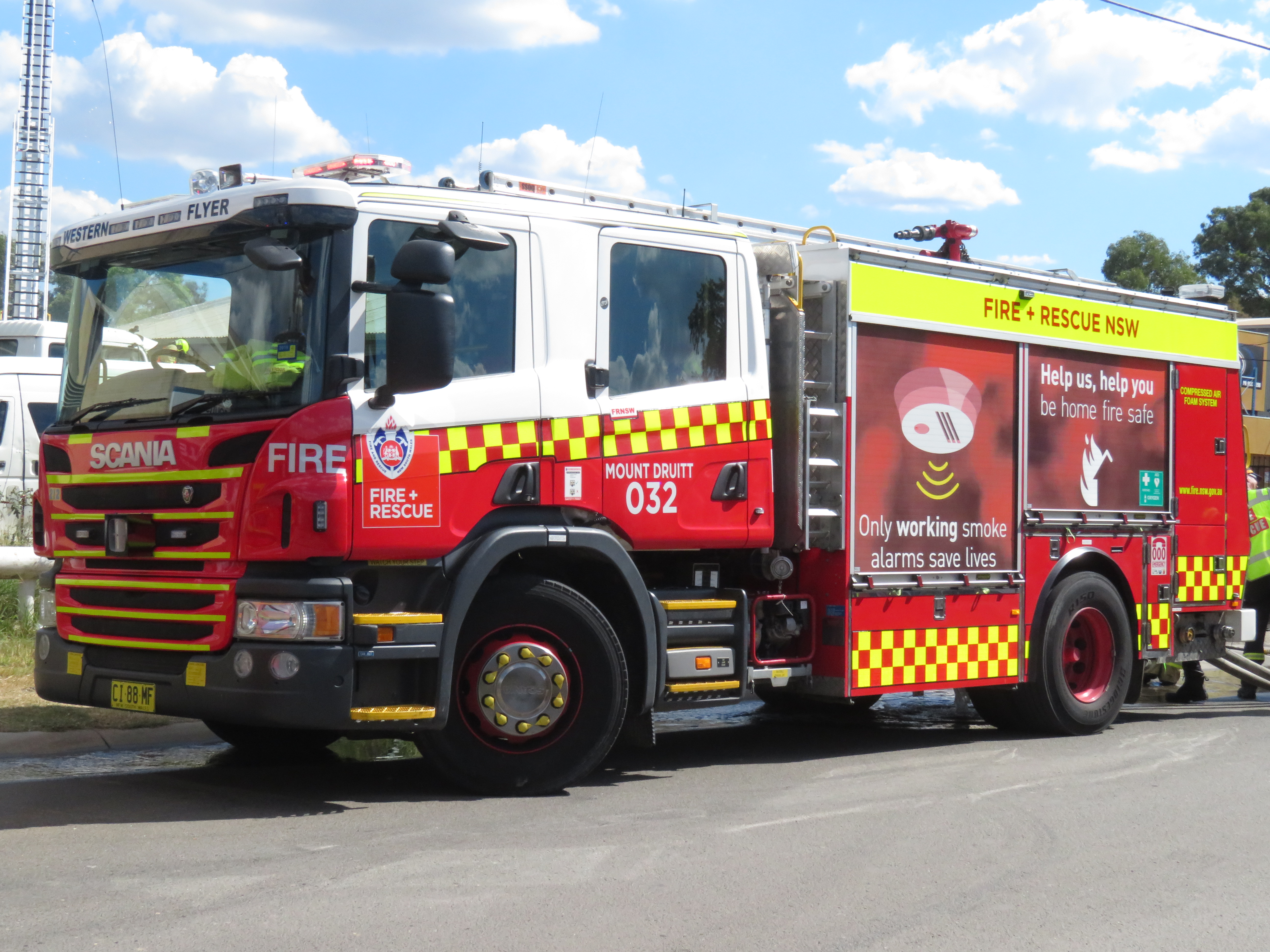 Fire and Rescue NSW Scania CAFS Pumper 32